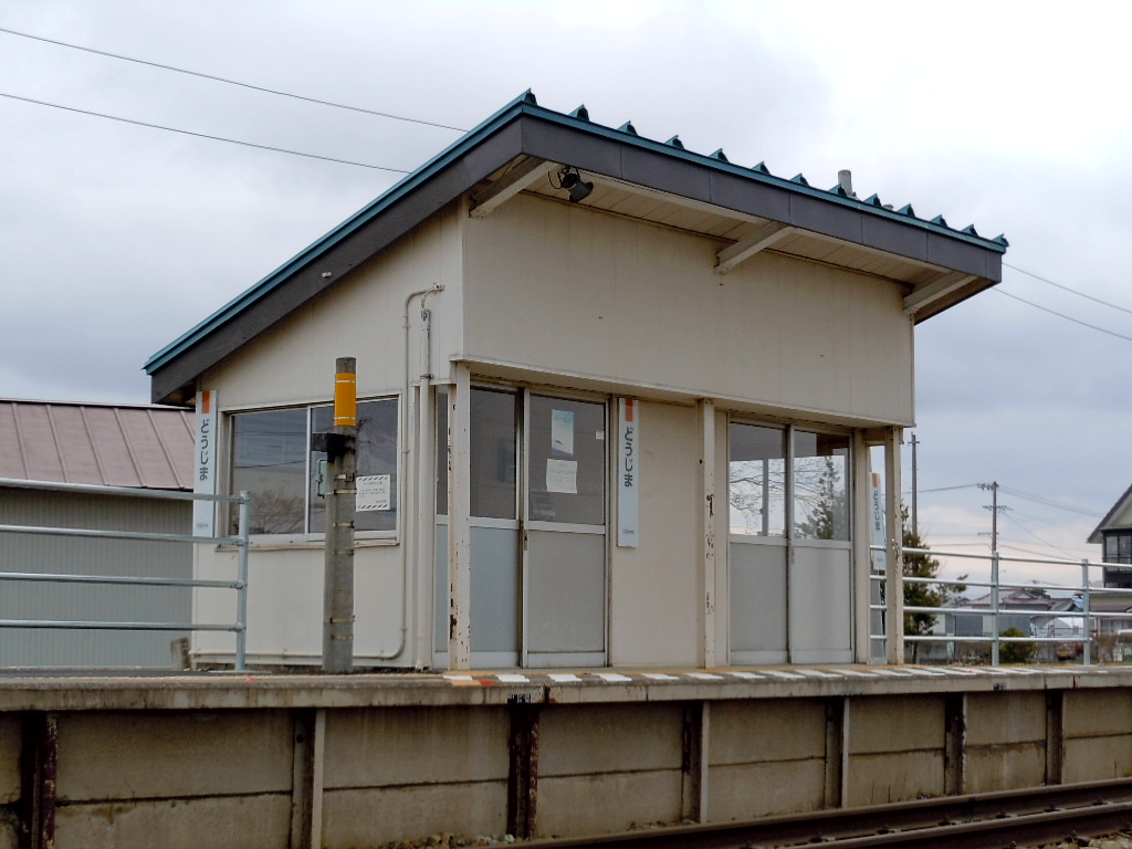 Dojima Station on West Ban'etsu Line